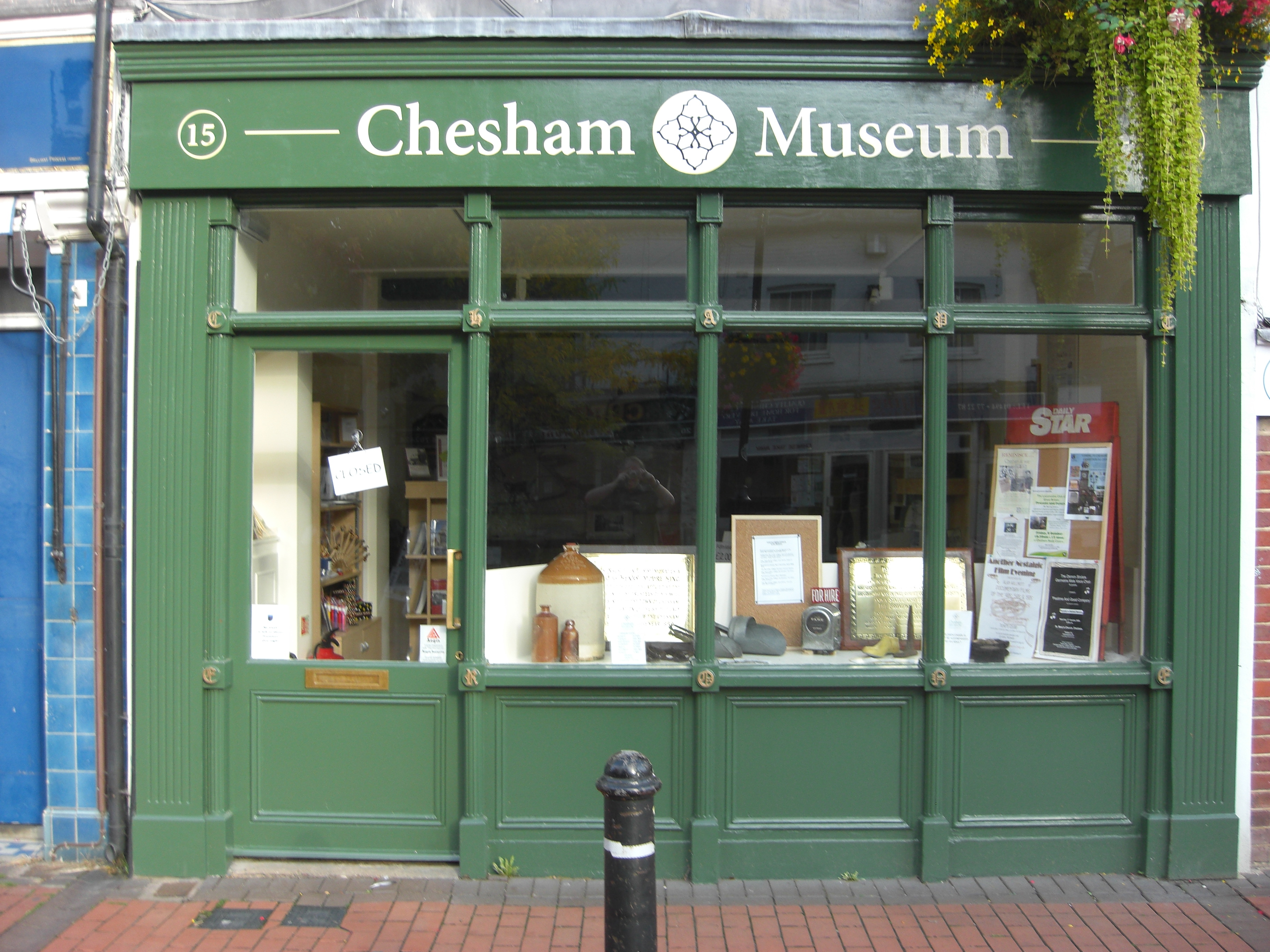 Taken by myselfTmol42 (talk) 17:35, 14 May 2009 (UTC)